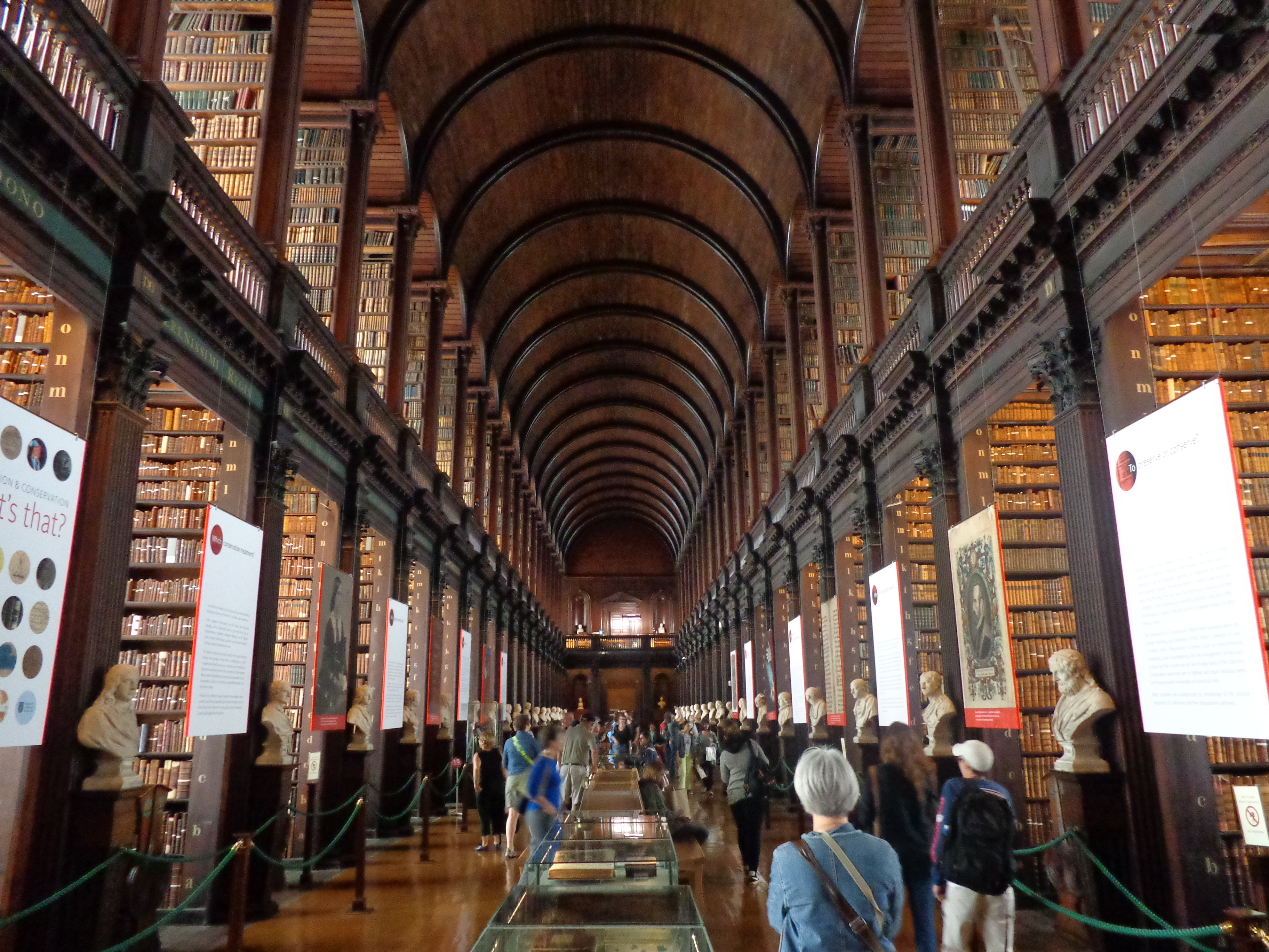 Old library in the Trinity College, Dublin